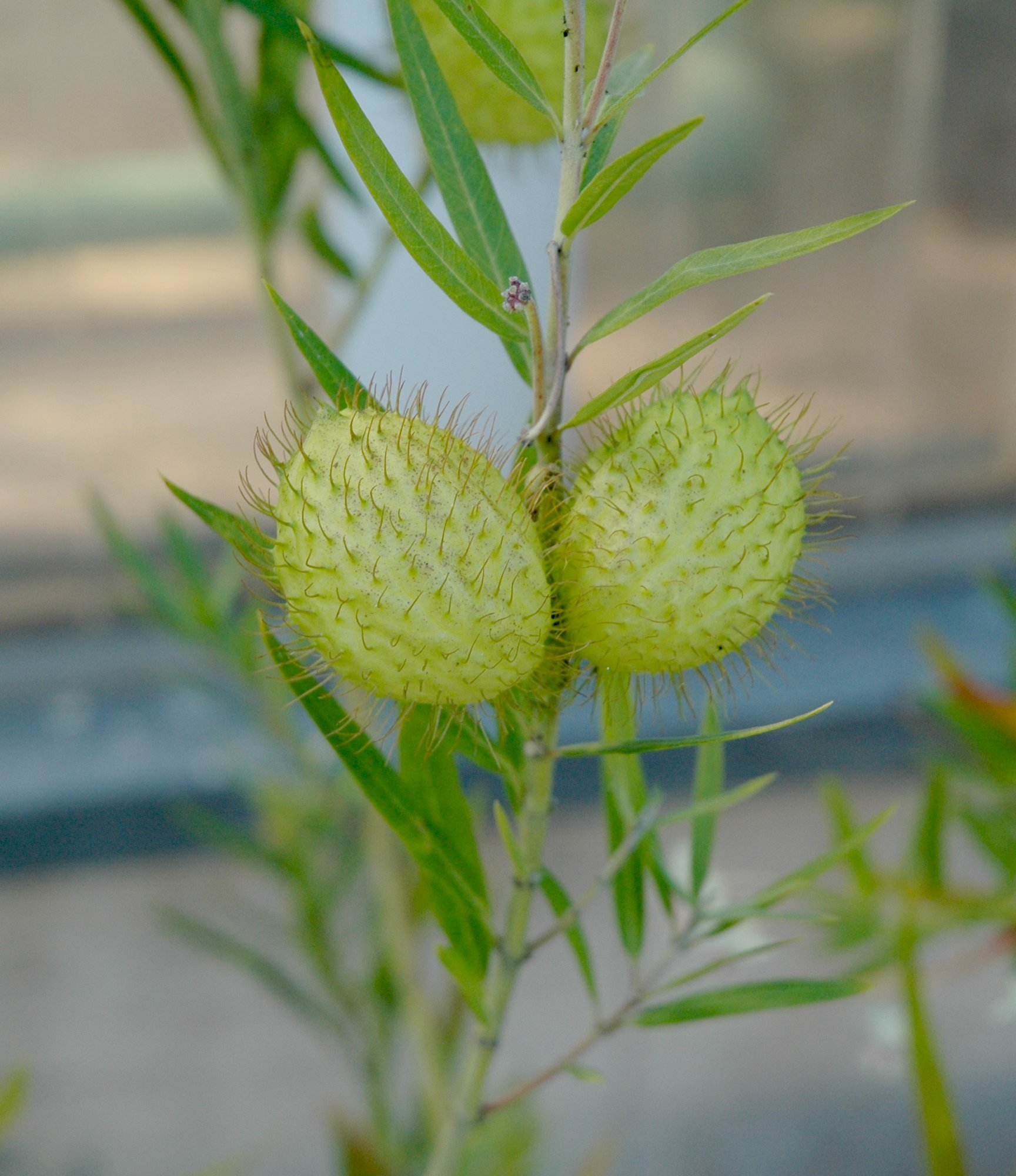 Fruits of Gomphocarpus physocarpus at Jena Botanical Garden, Germany